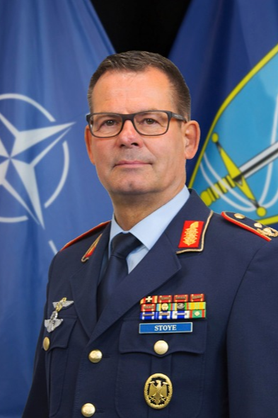 Chief of Staff HQ AIRCOM